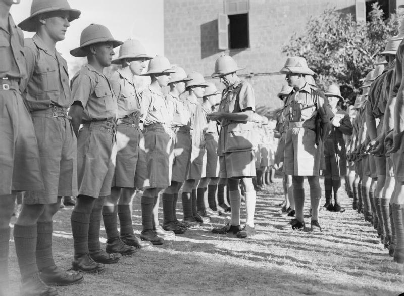 War Office Second World War Official Collection COUNRTY REGIMENT IN THE SUDAN Major General William Platt G.B. D.S.O G.O.C in C. Sudan faces inspecting reinforcements on their annual from England. 14th Regt. West Yorkshires at 5th Barracks, Khartown